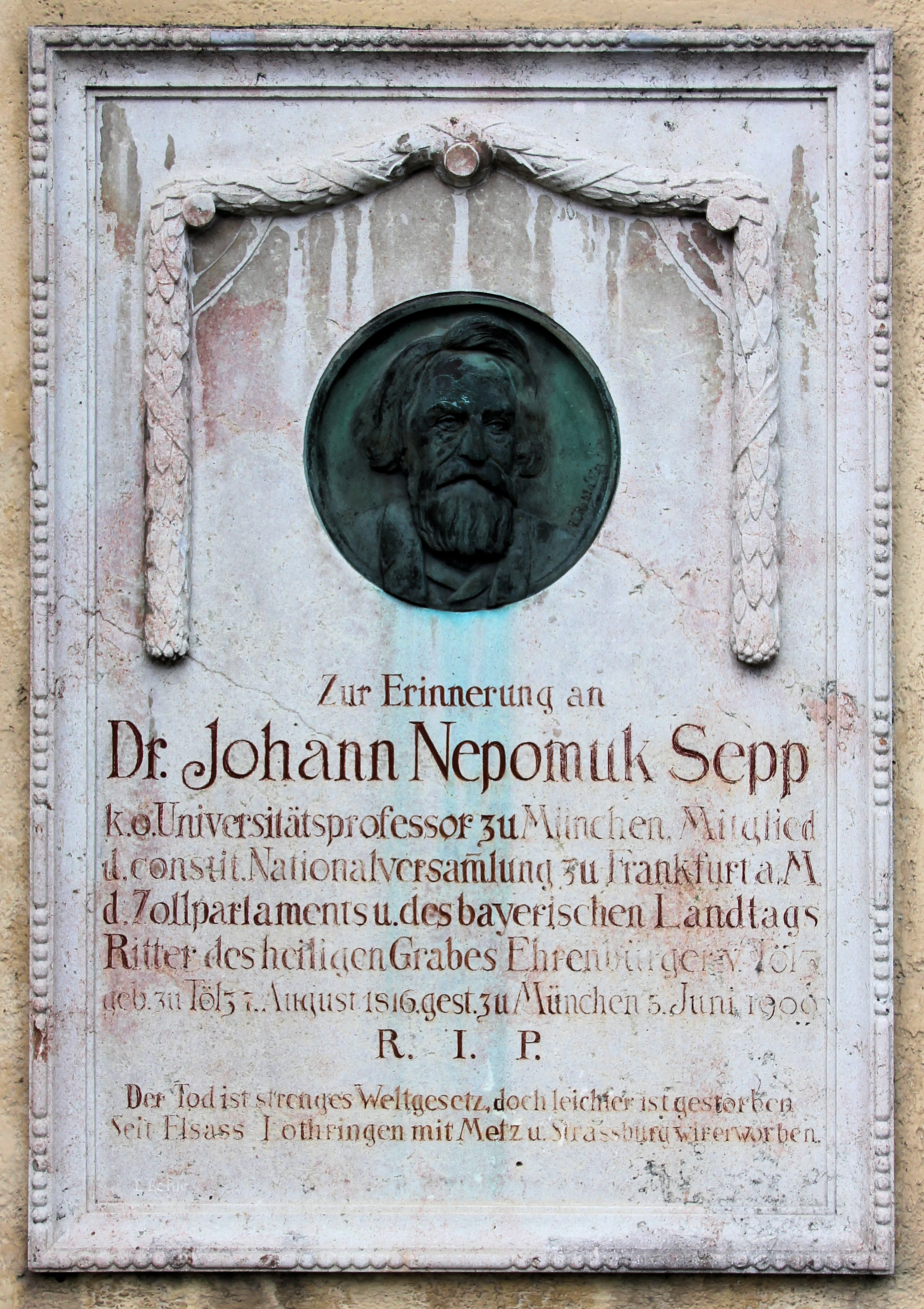 Memorial plaque, Johann Nepomuk Sepp, Franziskanergasse 1, Bad Tölz, Germany Koordinate:47°45′35″N 11°33′16″E / 47.75972°N 11.55444°E